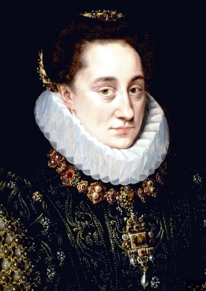 Head turned to the right. Wearing rich clothes, embroidered with gold stitching. Around her neck and her head she wears expensive jewelry. Possibly the jewelry that she's received as a gift when she married Philip of Hohenlohe. The face is accurate and corresponds to the only other known portrait of her, which is located in the orphanage at Buren.